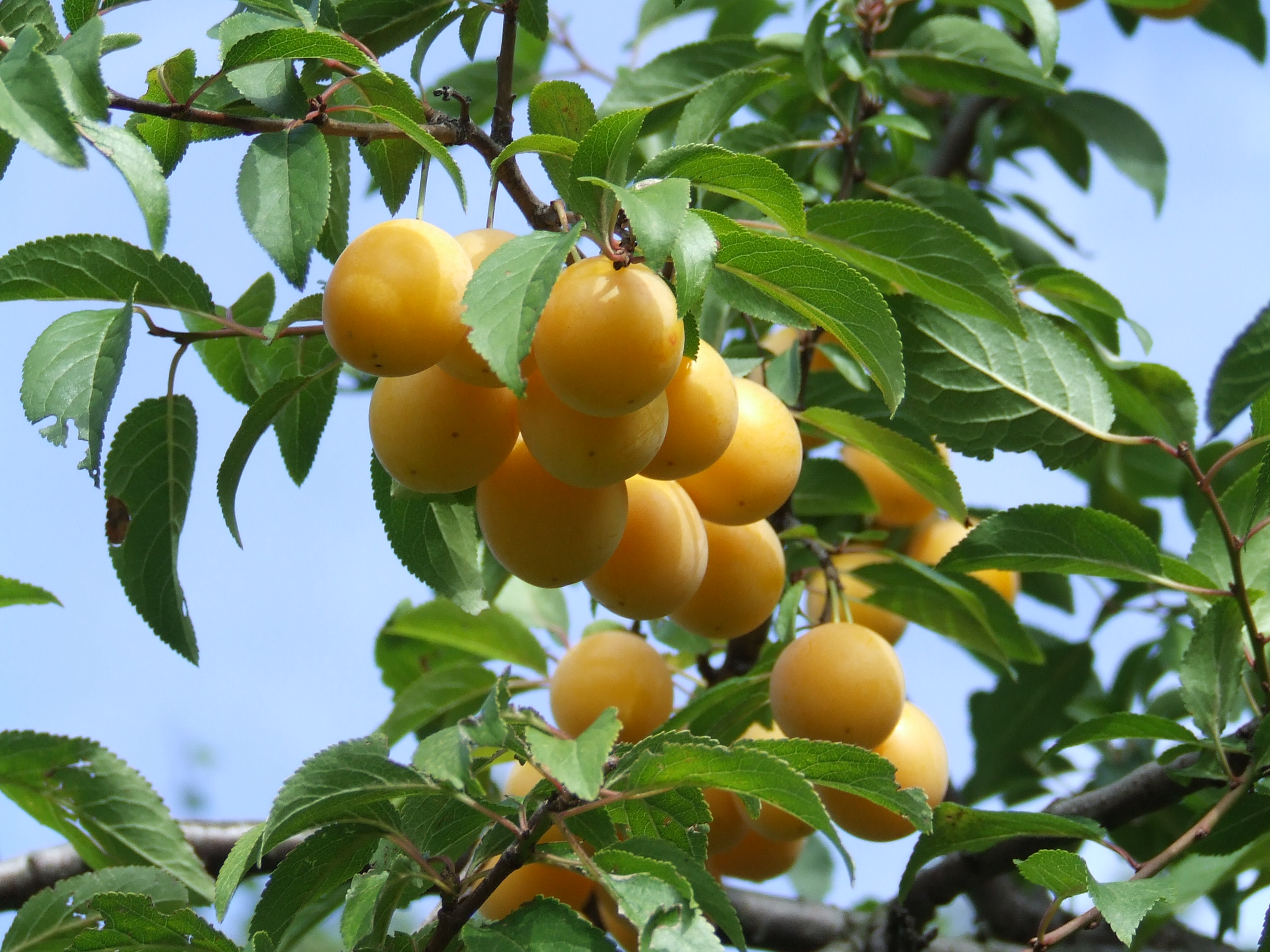 Prunus domestica, ssp. syriaca, photo made in Warsaw